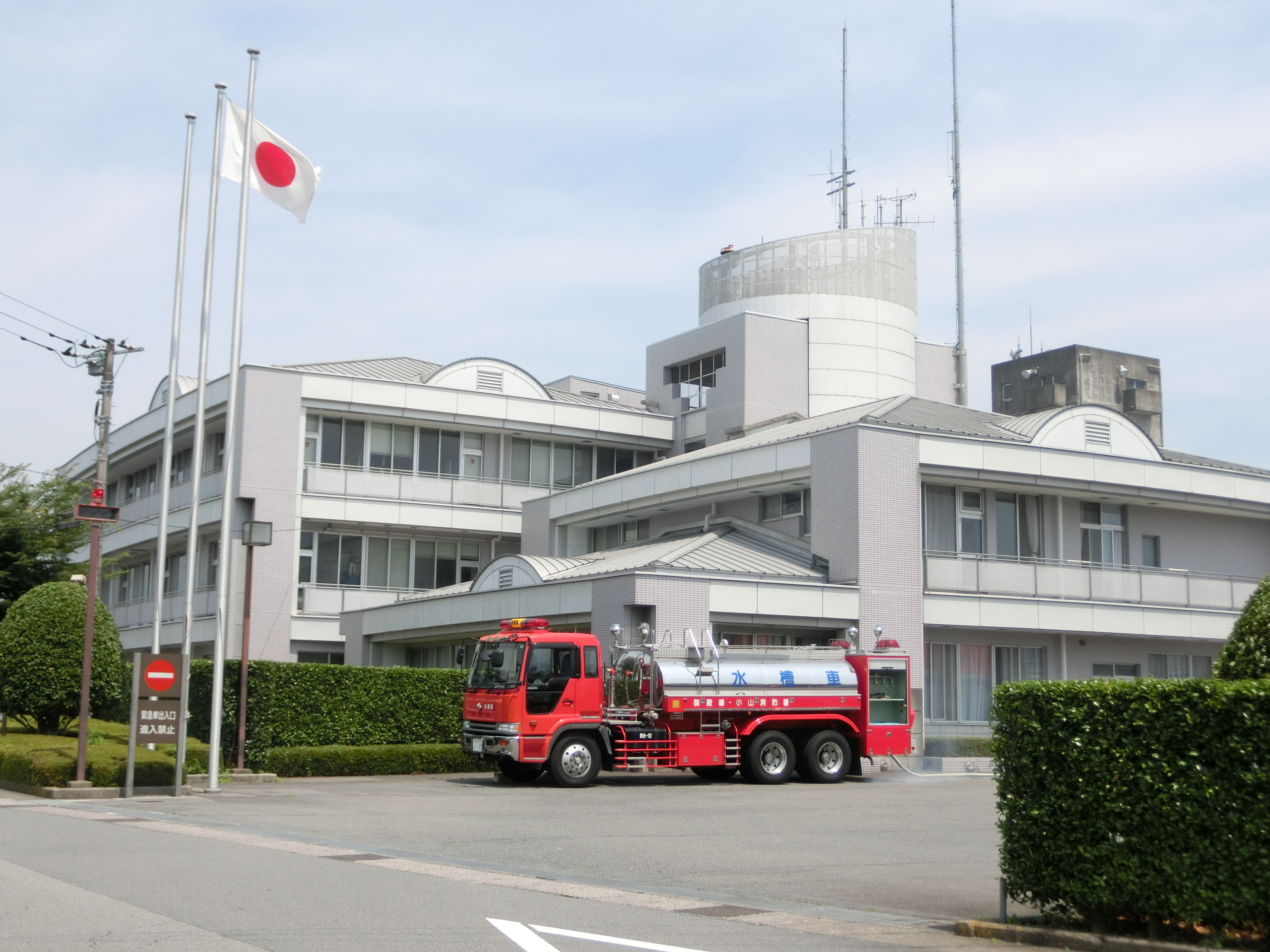 Gotemba City and Oyama Town Fire Department